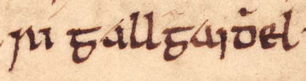 An excerpt from folio 39r of Oxford Bodleian Library MS Rawlinson B 489 (the Annals of Ulster). The excerpt concerns Suibne mac Cináeda (died 1034).